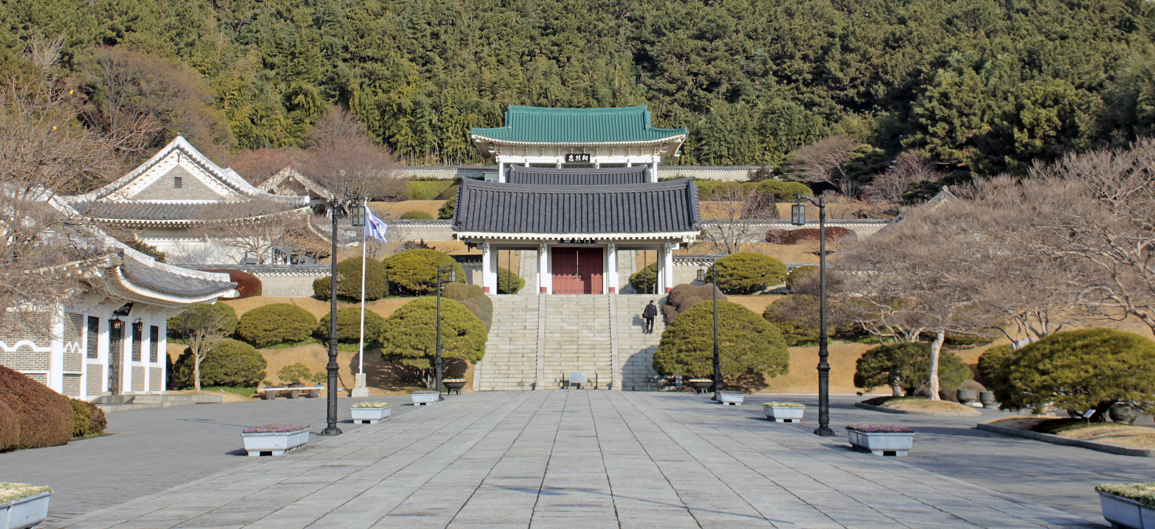 Chungryeolsa